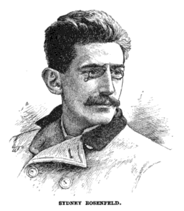 Sydney Rosenfeld (1855-1931), American playwright, from April 1892 issue of Frank Leslie's Popular Monthly